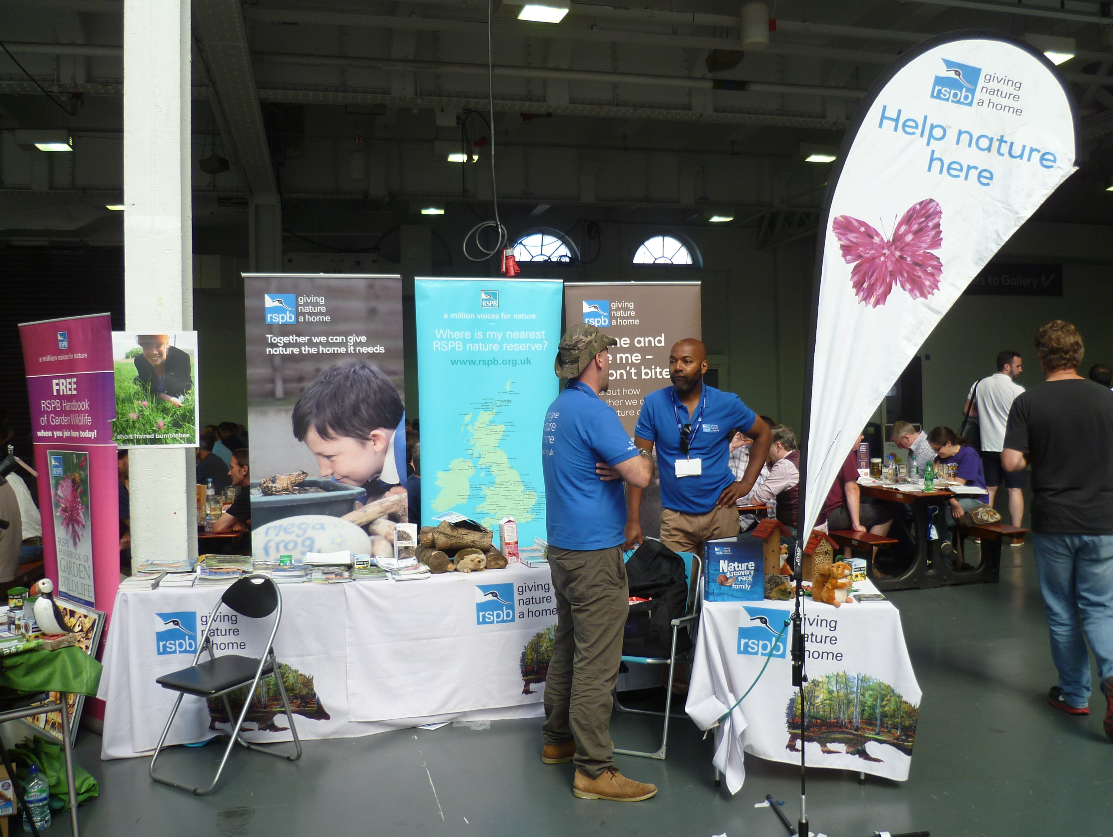 Great British Beer Festival